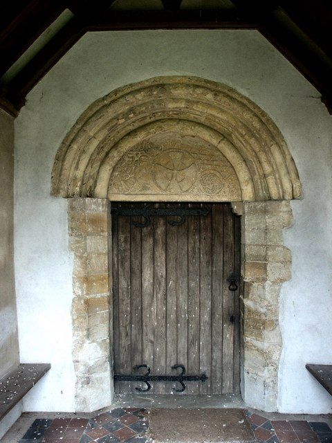 Norman doorway inside the south porch of St Benedict's parish church, Haltham-on-Bain, Lincolnshire